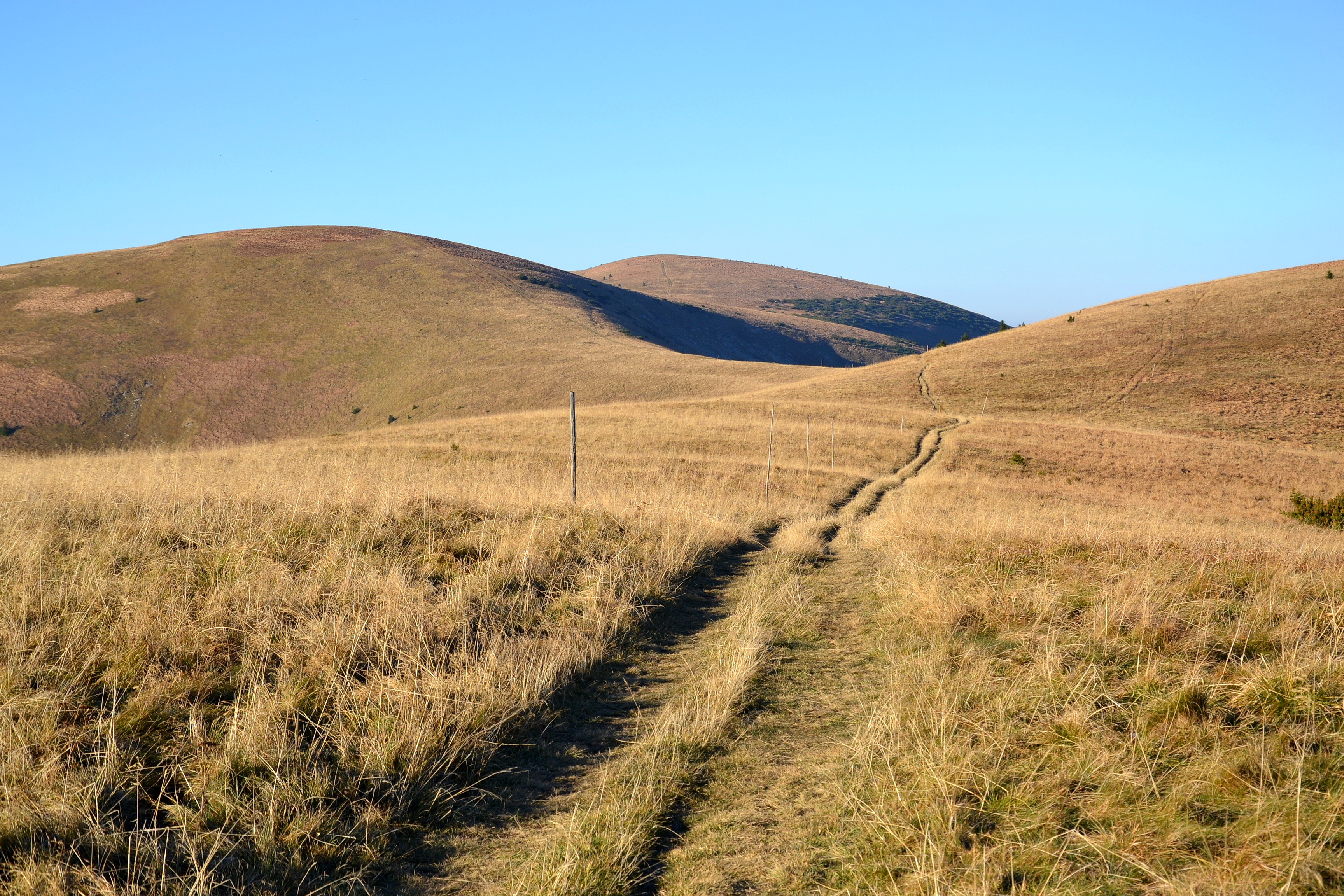 Veľká Fatra, Slovakia - Frčkov and Ostredok